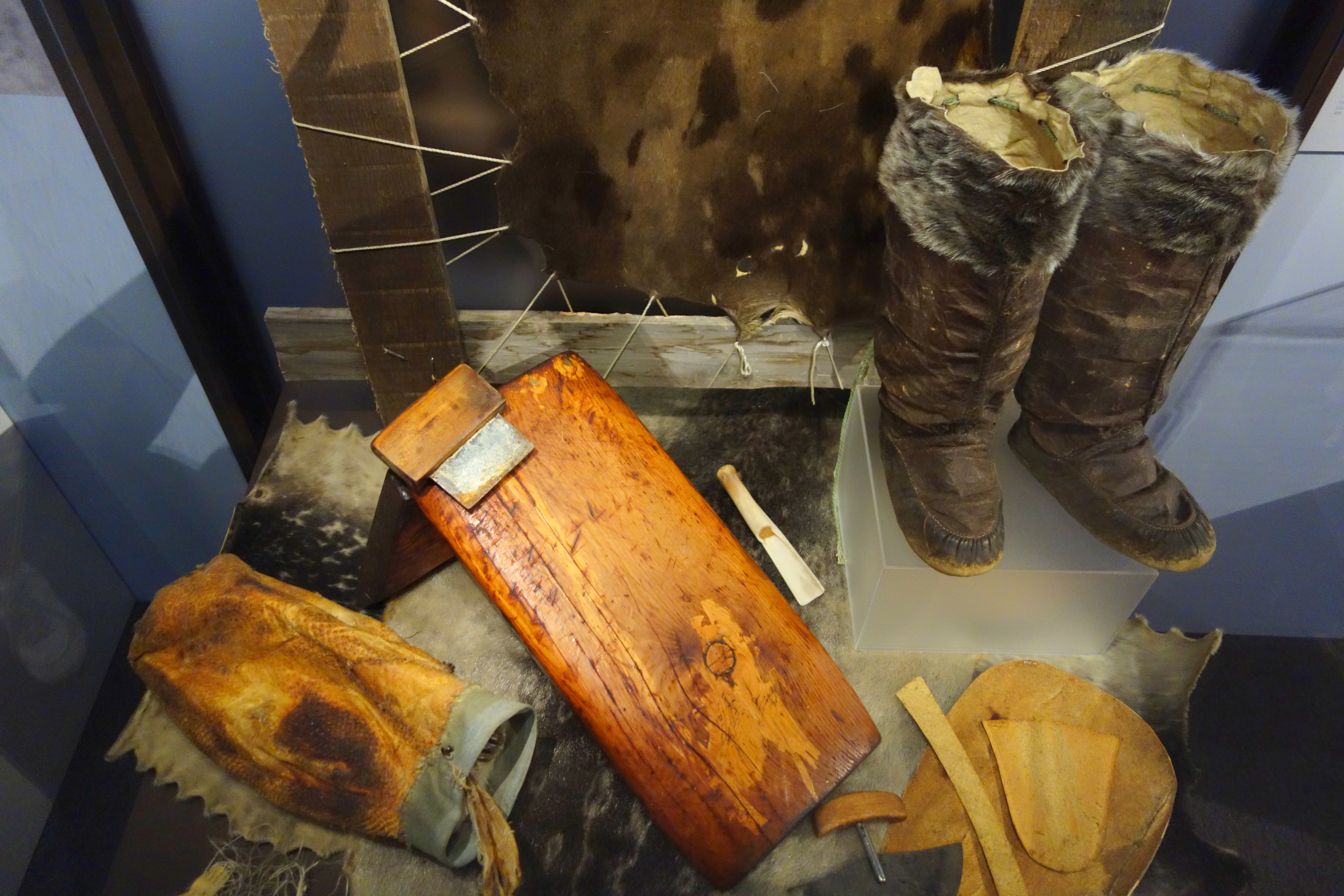 Exhibit in the Bata Shoe Museum, Toronto, Ontario, Canada. The museum permitted photography without restriction.